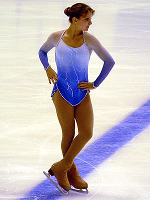 Christine Zukowski during her free skate at the 2005 Junior Grand Prix event in Croatia